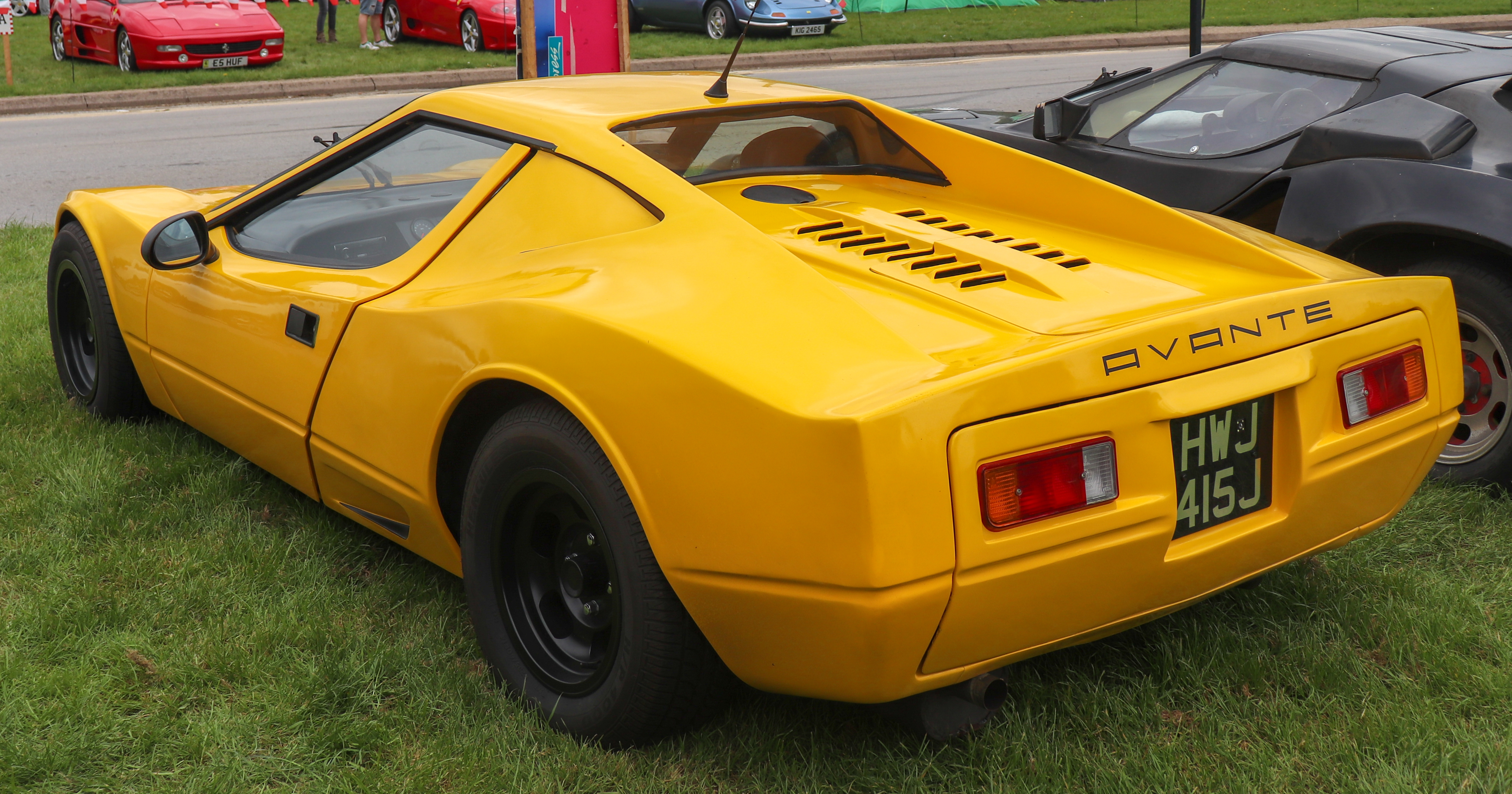 1971 (Donor) Avante Mk1 2.0 Rear Taken at the Stoneleigh National Kit Car Motor Show 2019